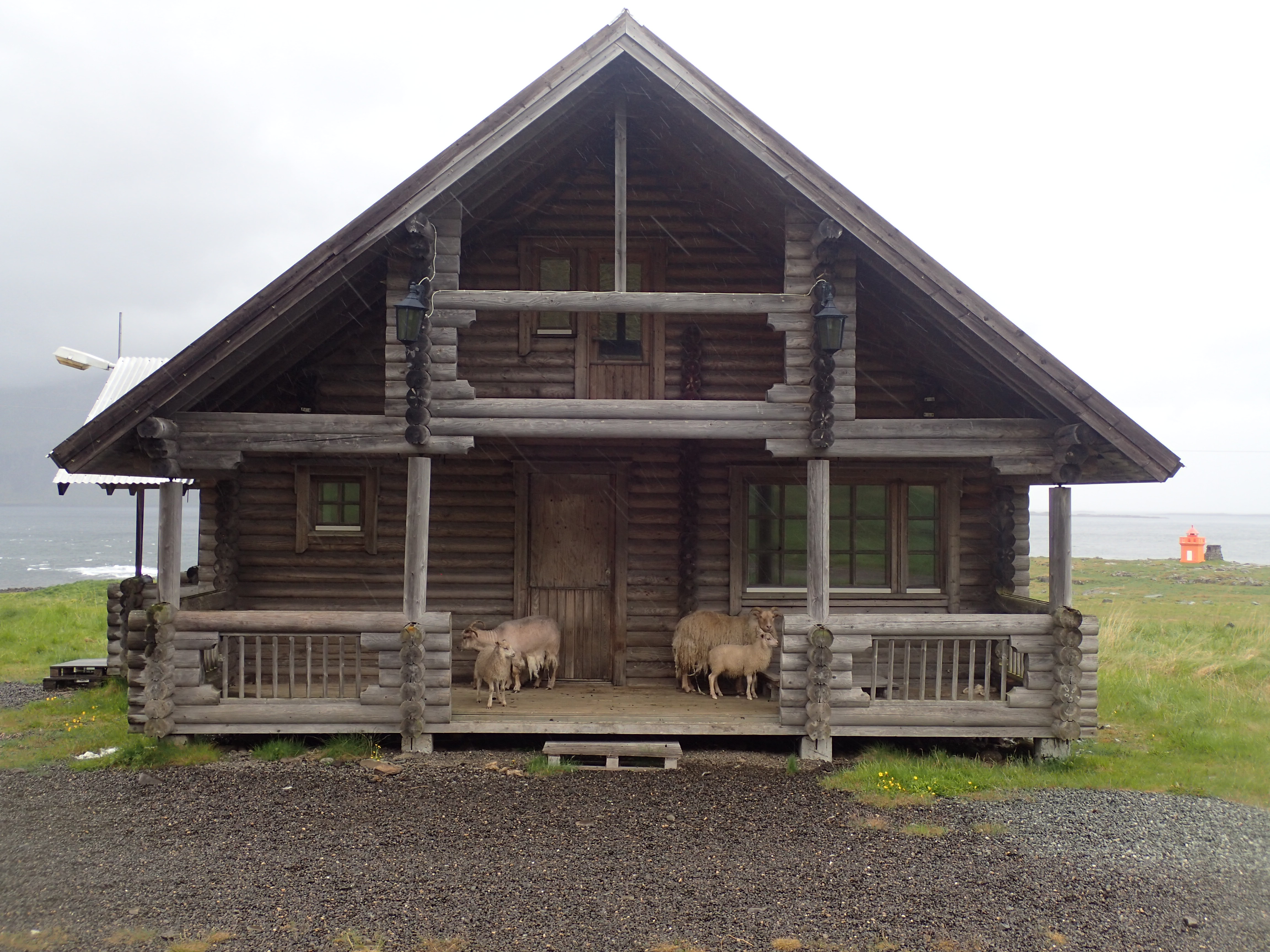 near Reyðarfjörður